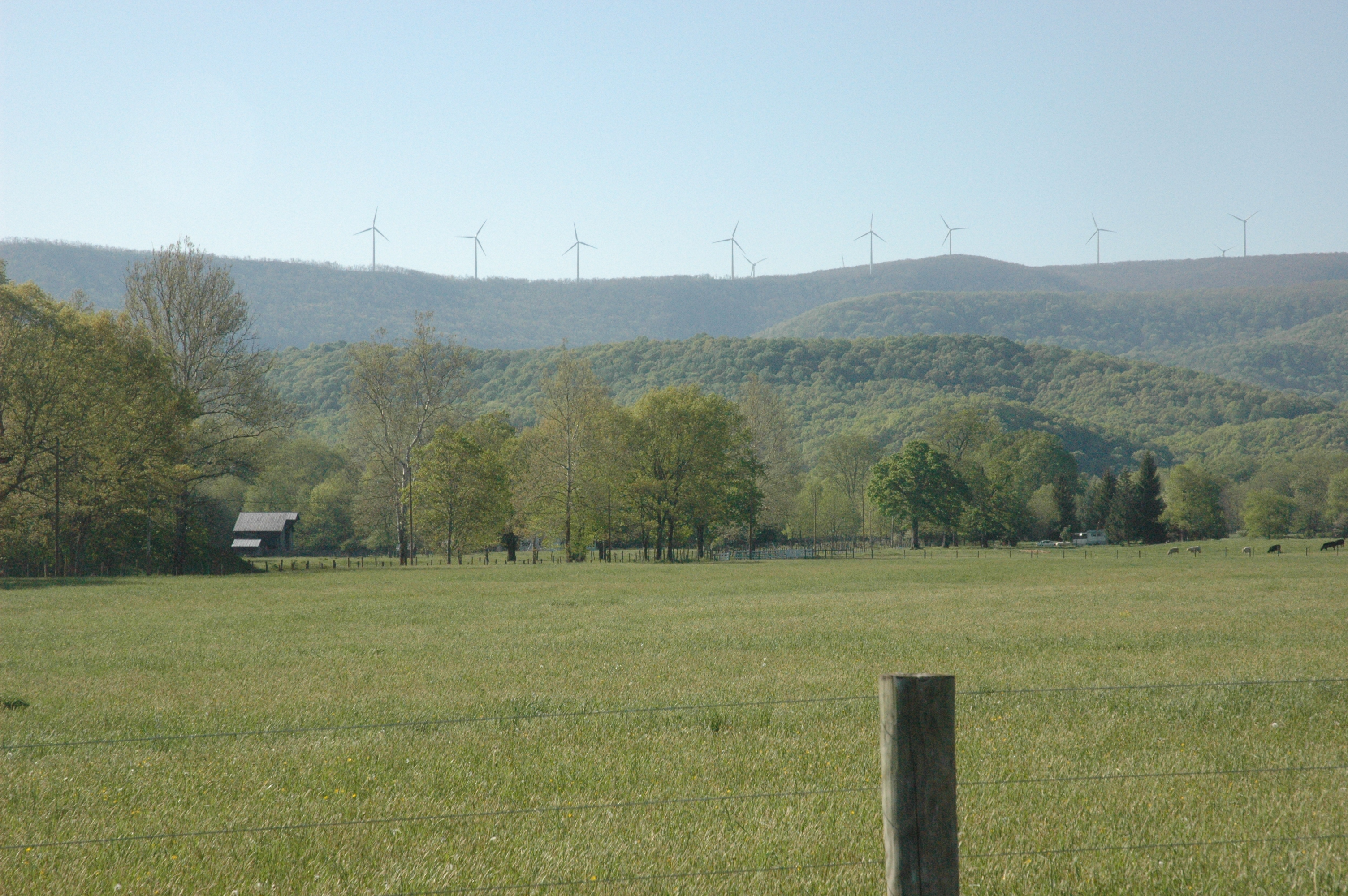 Windmills which are part of the Beech Ridge Wind farm as viewed from Trout, West Virginia, USA.